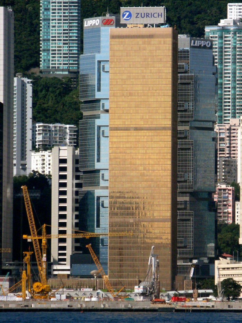 Far East Finance Centre 遠東金融中心